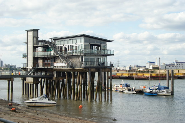 Greenwich Yacht Club With the yacht club standing on wooden piers, this scene would look much less dramatic at high tide.